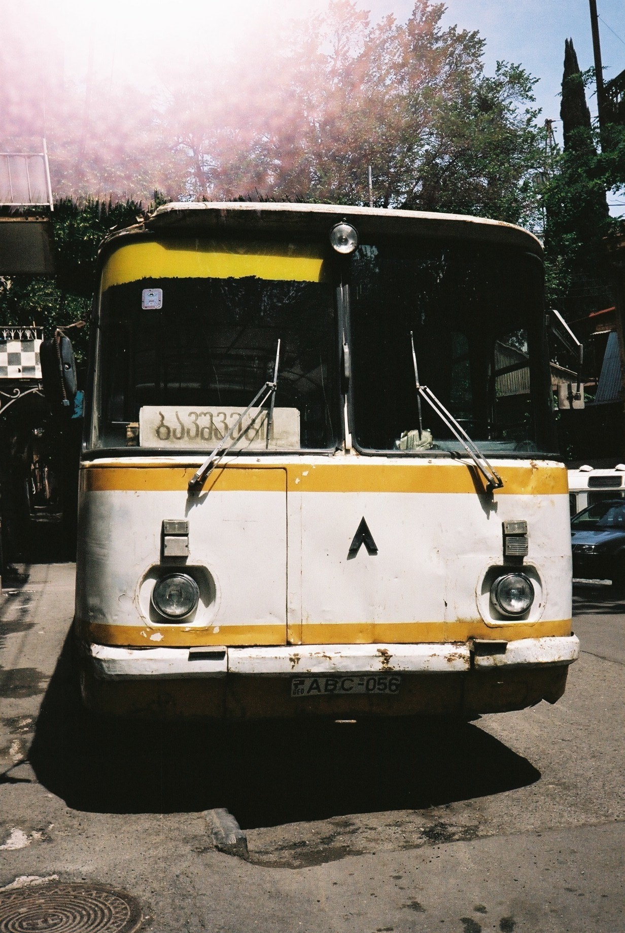 Children bus in Tbilisi Georgia.